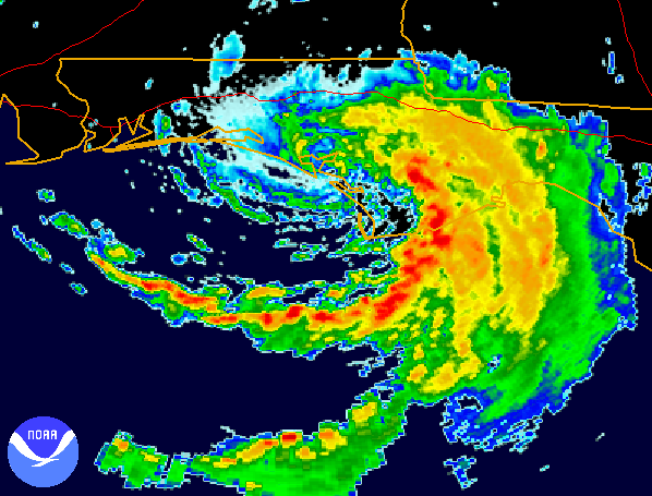 This is a radar image of Tropical Storm Beryl, 1994, from NWS Eglin AFB NEXRAD radar, and was made using JAVA NEXRAD tool.